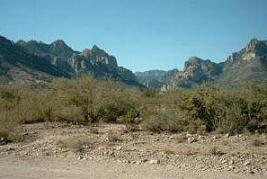 Chiricahua Mountains